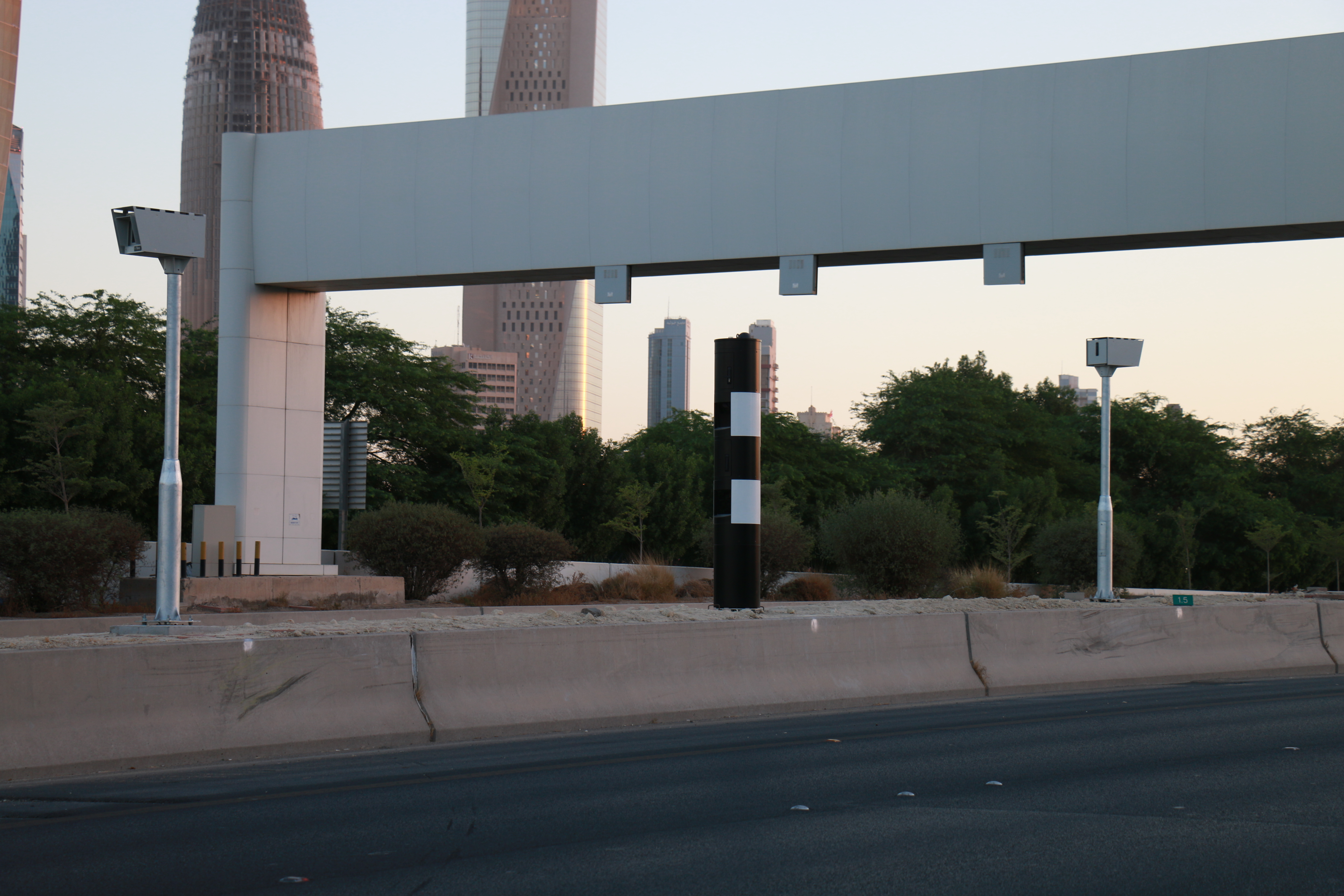 The newest Speed trap used by MOI.